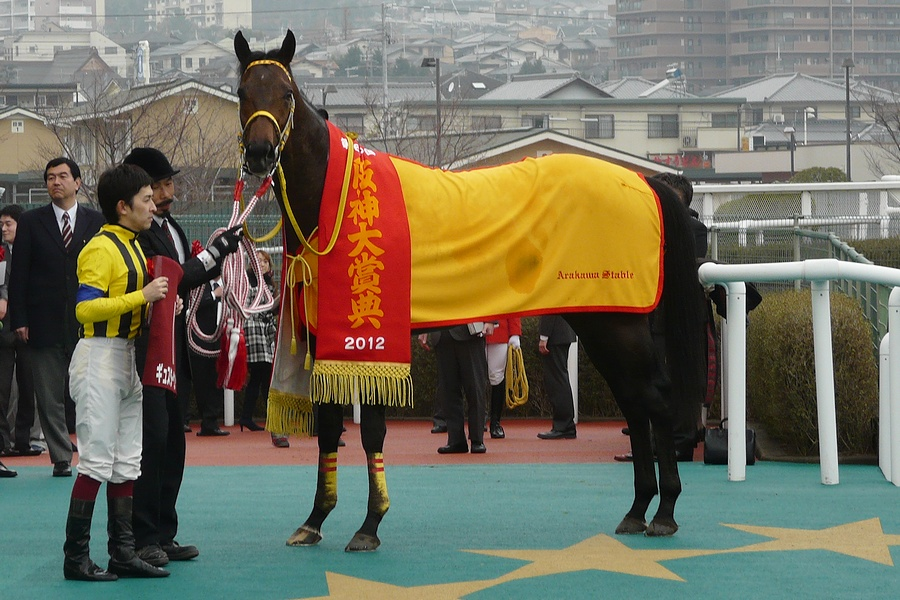 Gustave-cry20120318(2)